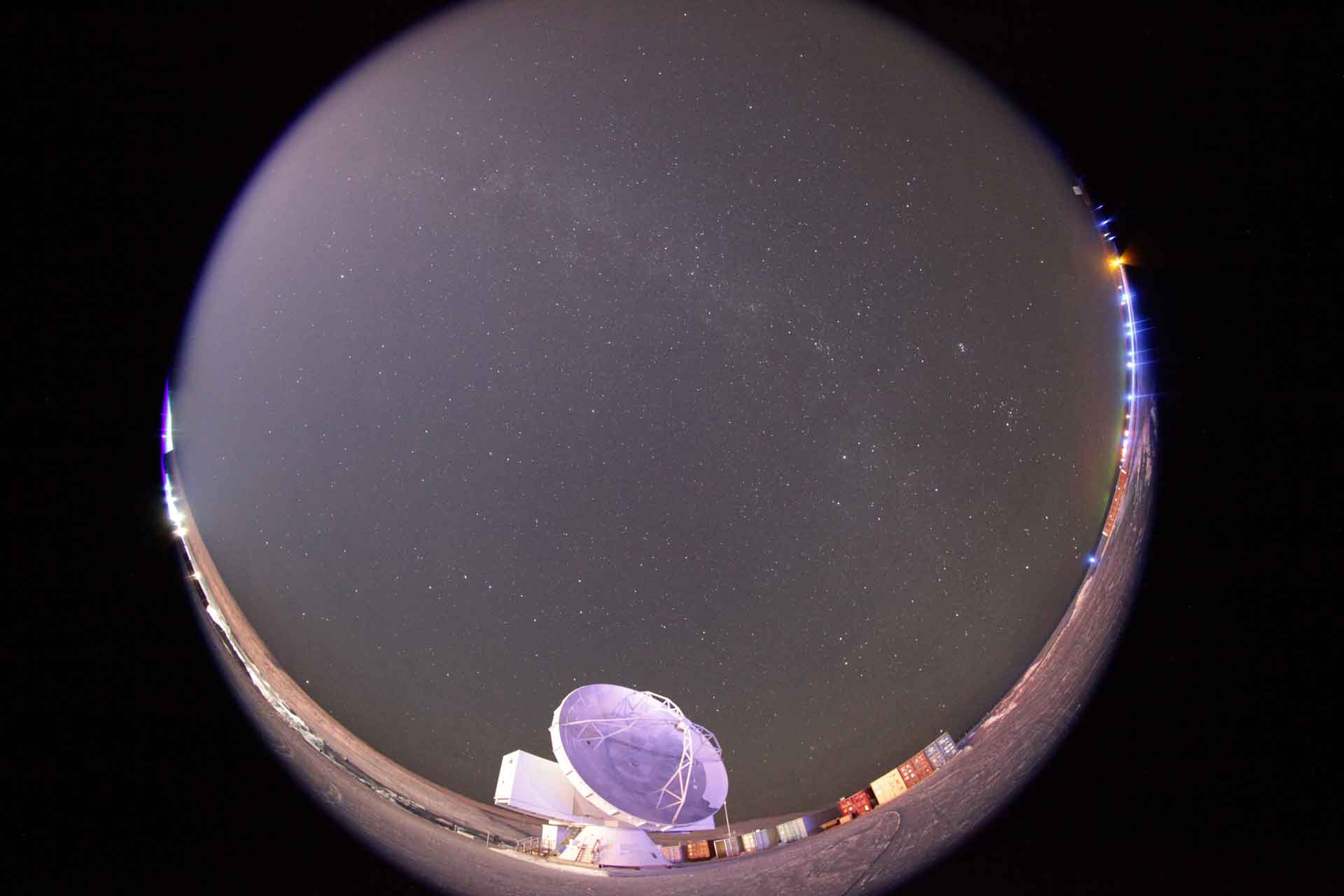 The Greenland Telescope in November 2017